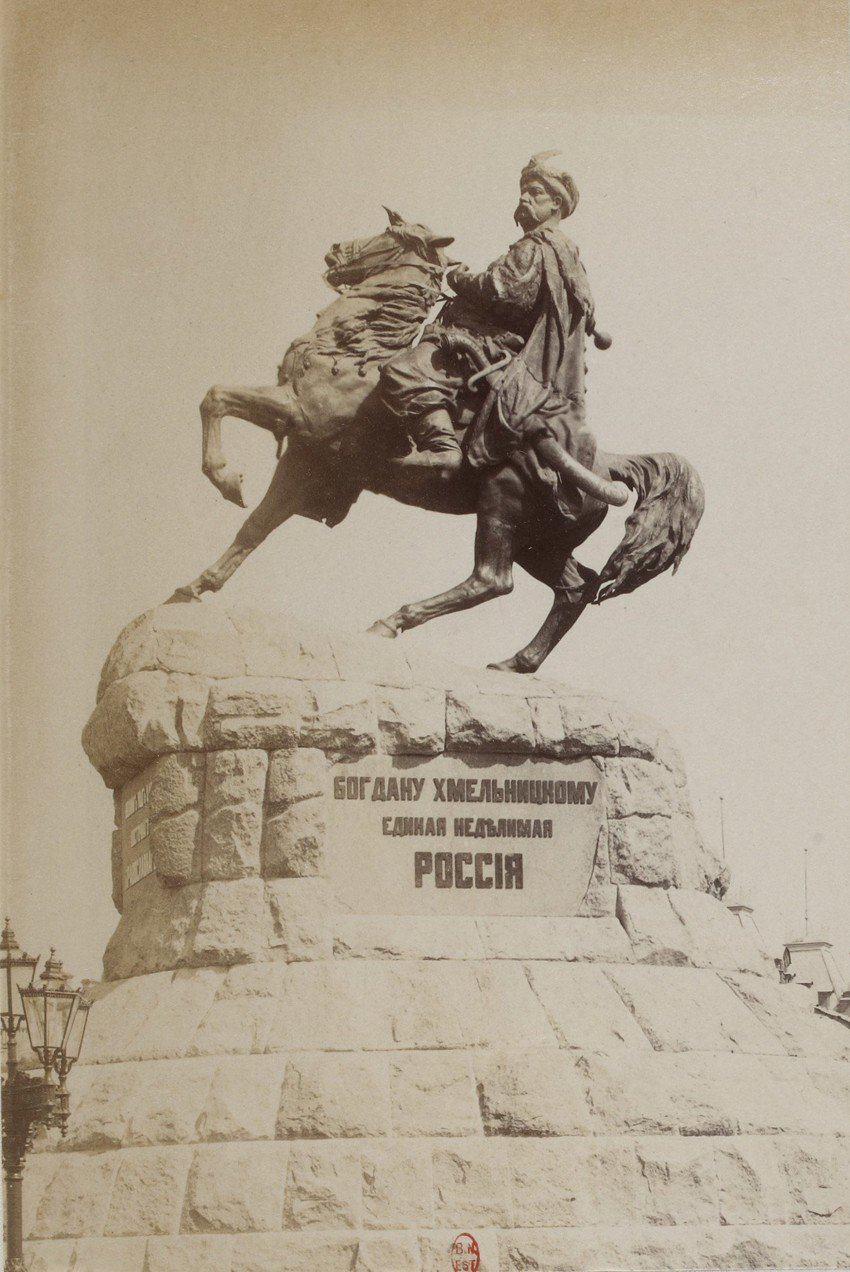 Bogdan Khmelnitsky monument in Kiev, Russian Empire.